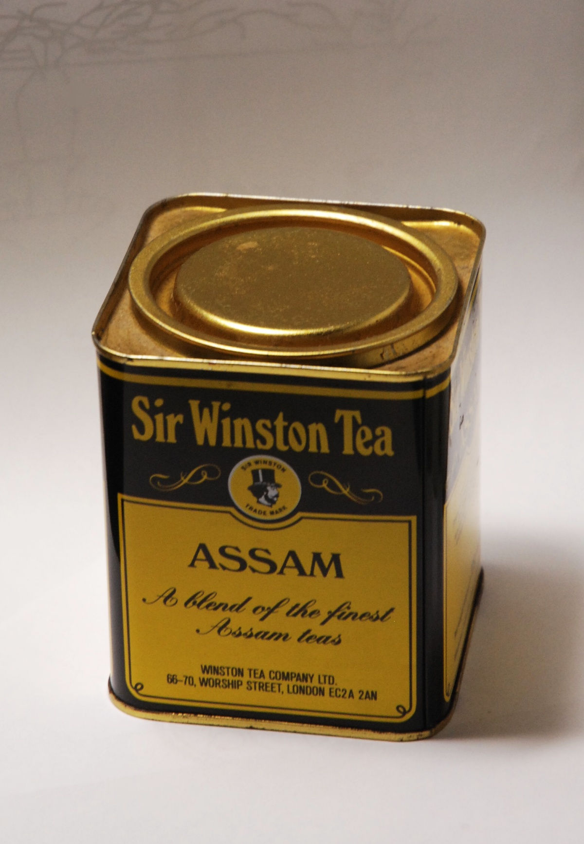 Assam tea